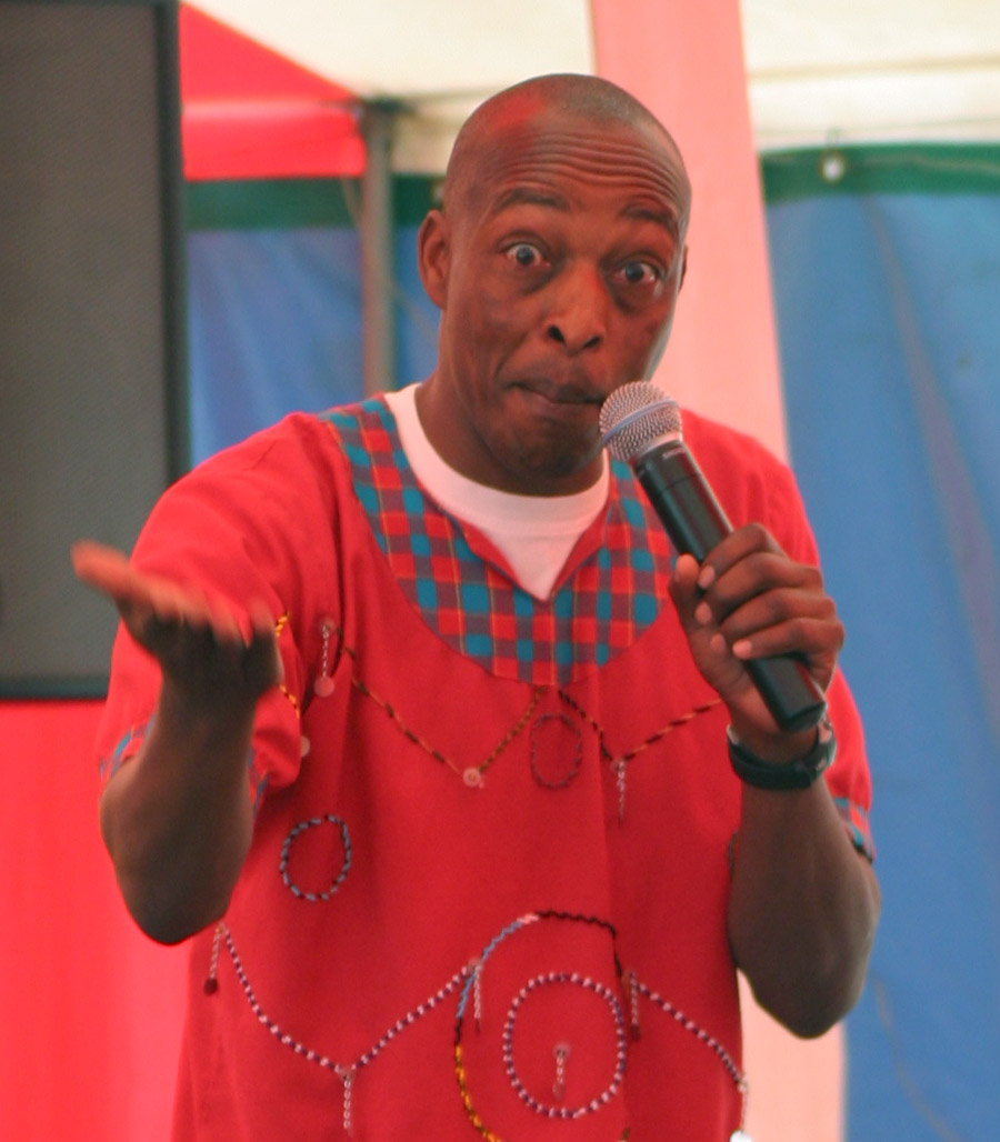 Wilson Kirwa is speaking at the knife festival at Kauhava, Finland